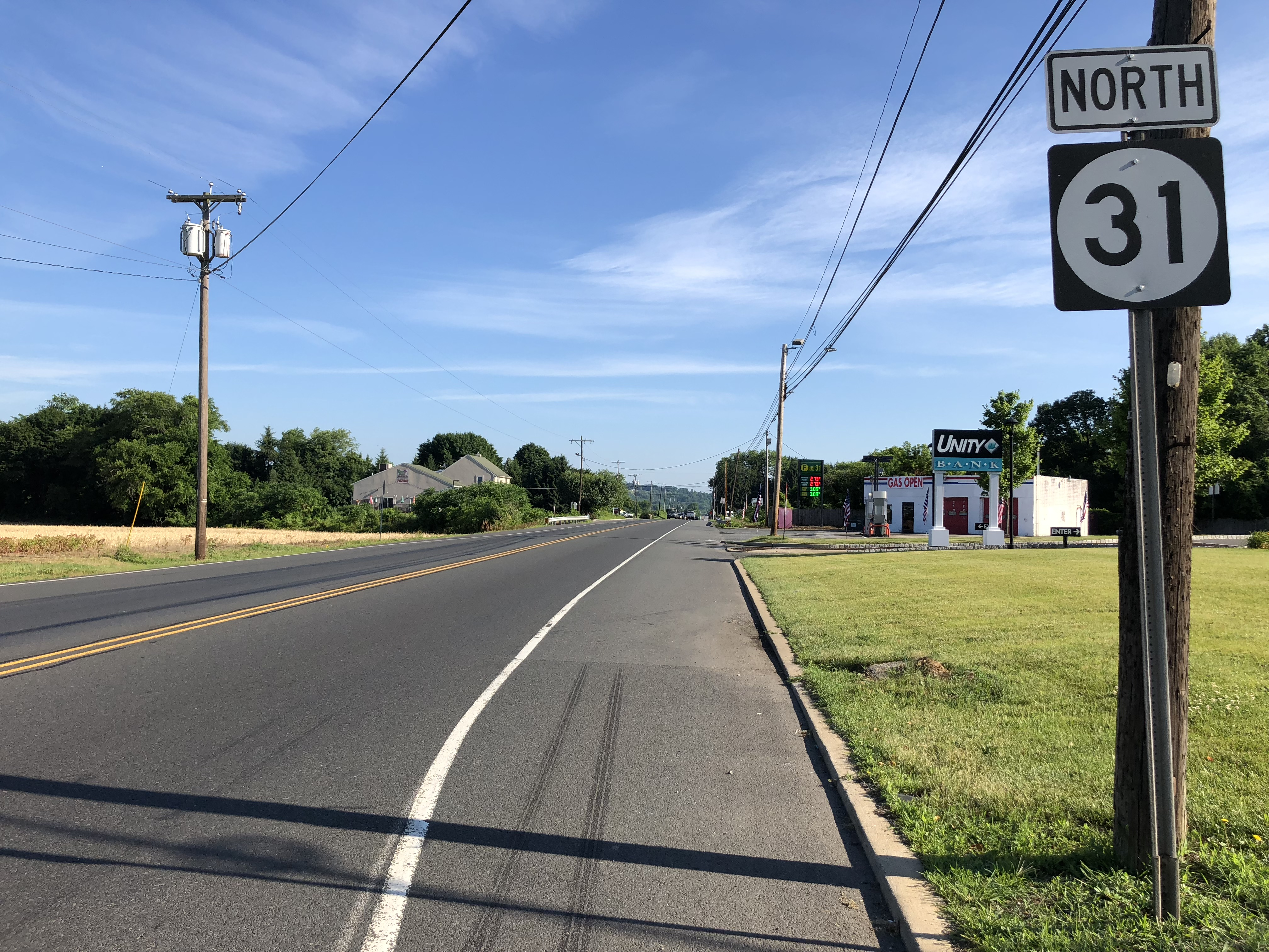 View north along New Jersey State Route 31 just north of Warren County Route 632 (Asbury-Anderson Road) in Washington Township, Warren County, New Jersey